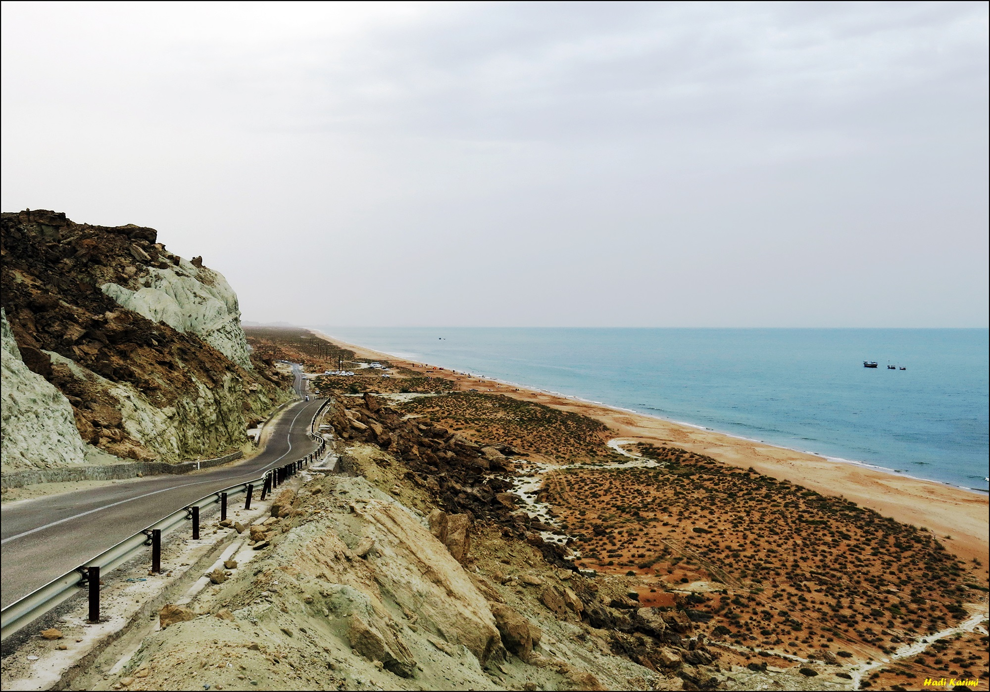 Along the shore... در امتداد کرانه